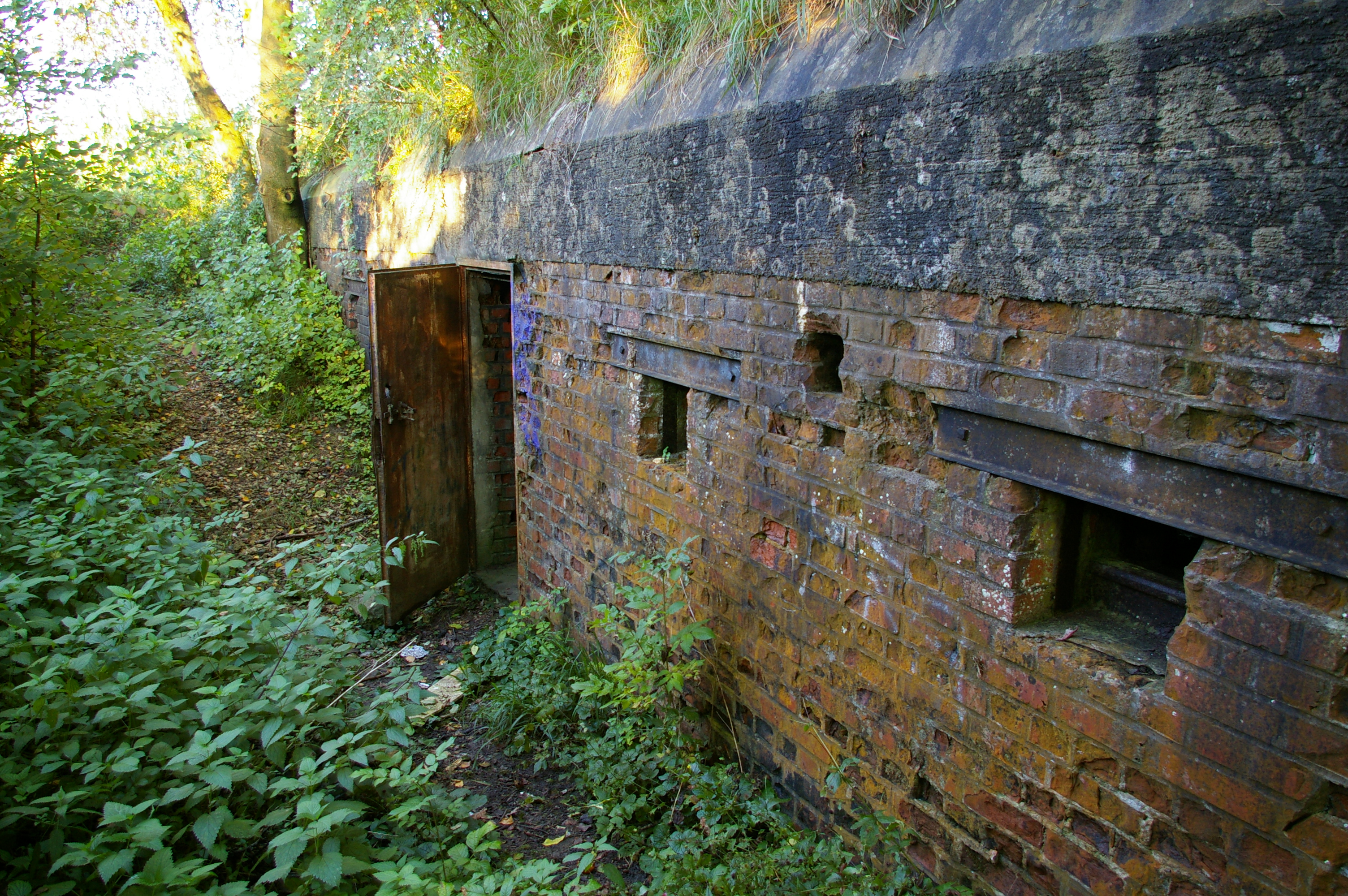 Infantry base 58 in the Muthenhölzle near Neu-Ulm, north of Ludwigsfeld. Built in 1914, abandoned and forgotten, it survived the demolition of the bases by the allied forces in 1945.